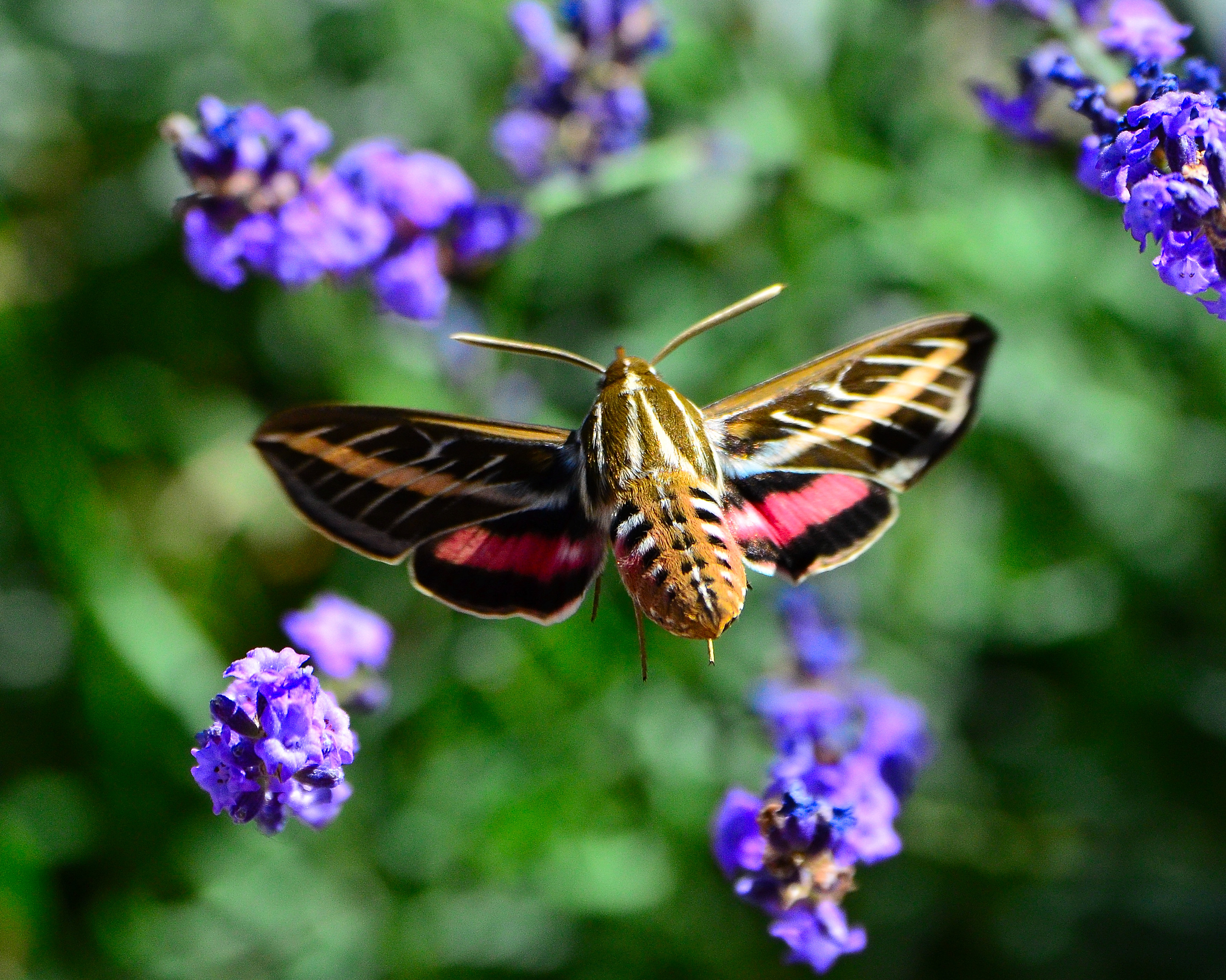 Courtyard in Los Alamos